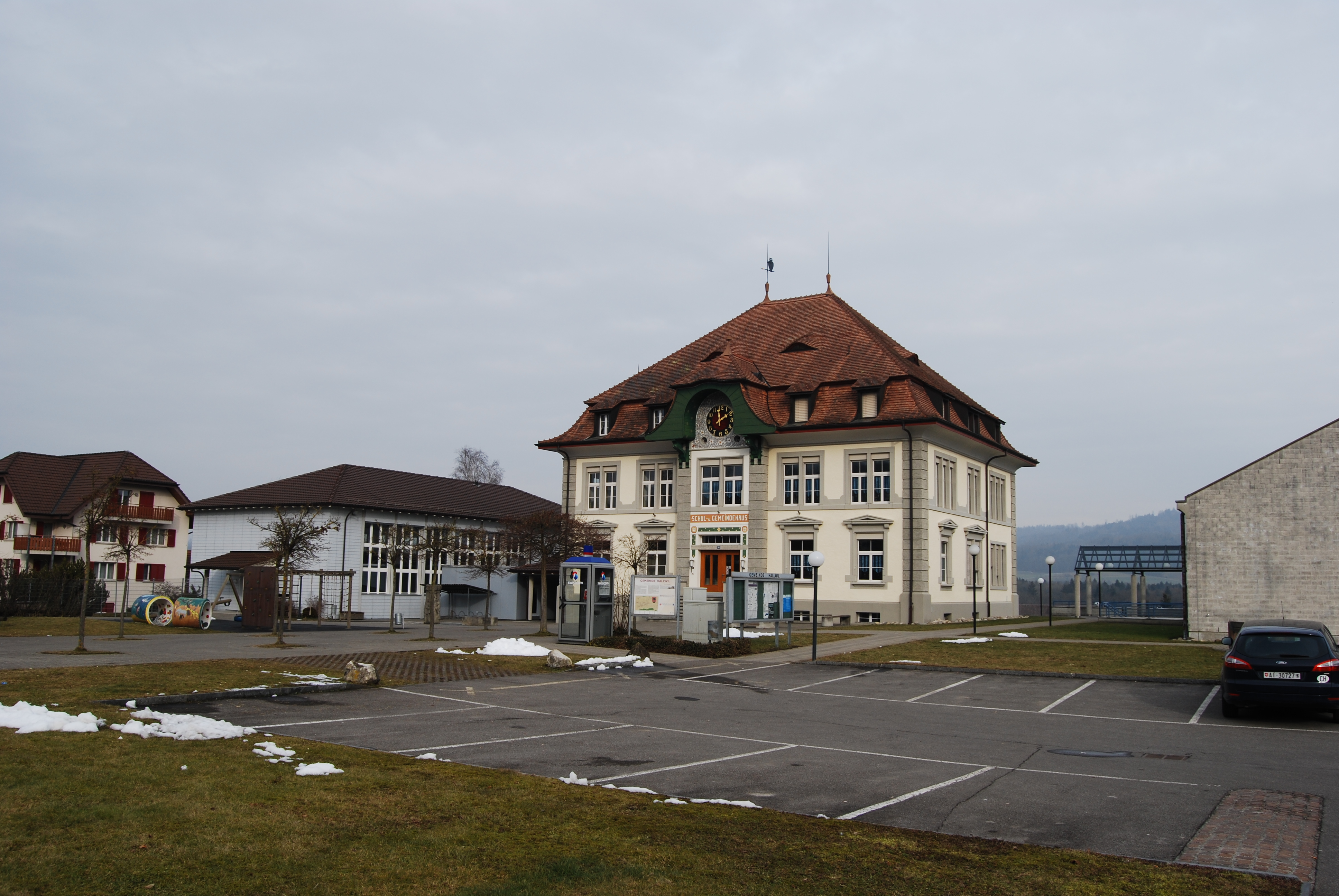 Municipal administration of Hallwil, canton of Aargau, SwitzerlandEsperanto: Komunuma domo de Hallwil, Kantono Argovio, Svislando